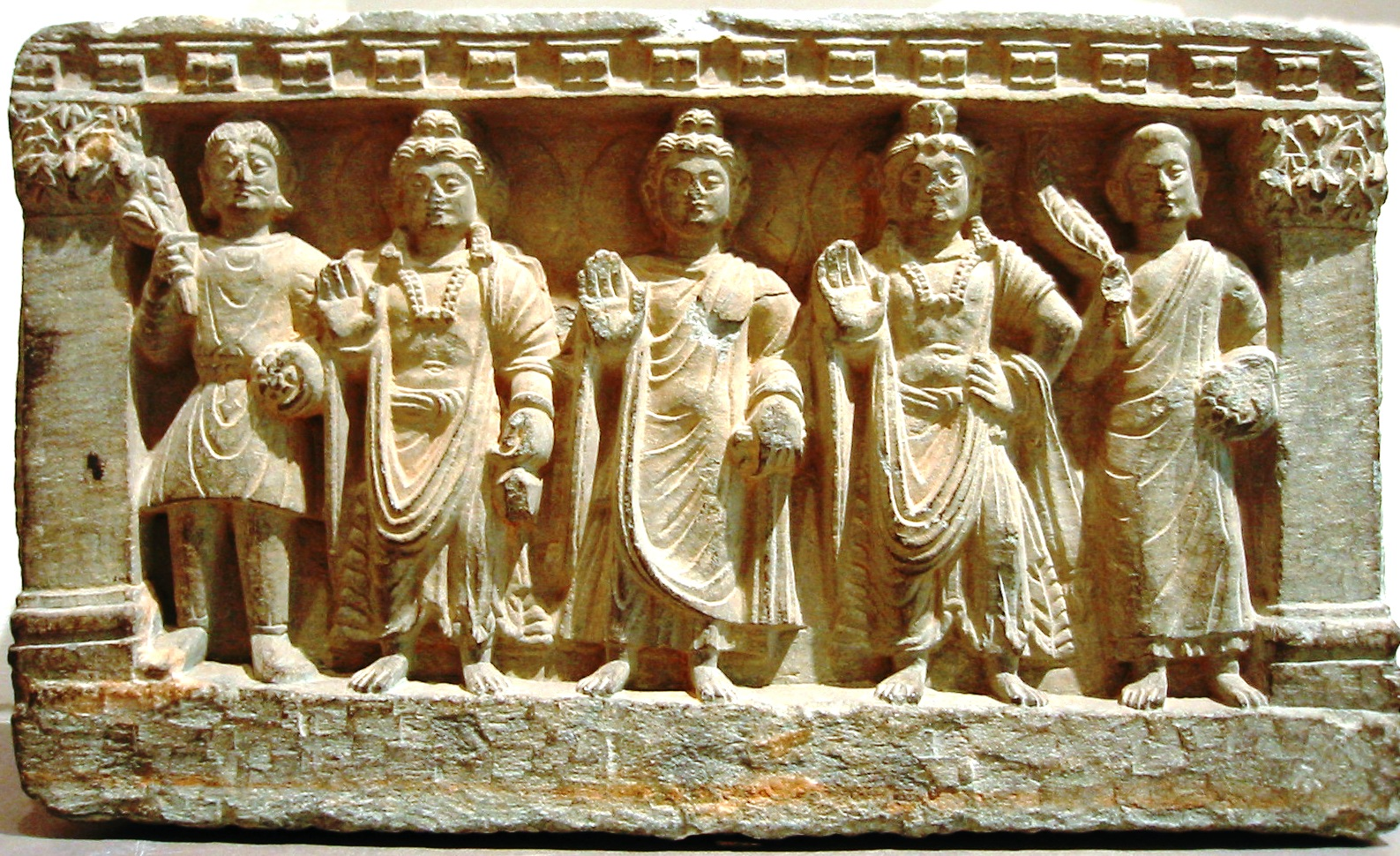 An early Buddhist triad. 2nd-3rd century CE. Gandhara. Musée Guimet. Personal photograph. From left to right, a Kushan devotee, the Bodhisattva Maitreya, the Buddha, the Bodhisattva Avalokitesvara, and a Buddhist monk. 2nd-3rd century, Gandhara